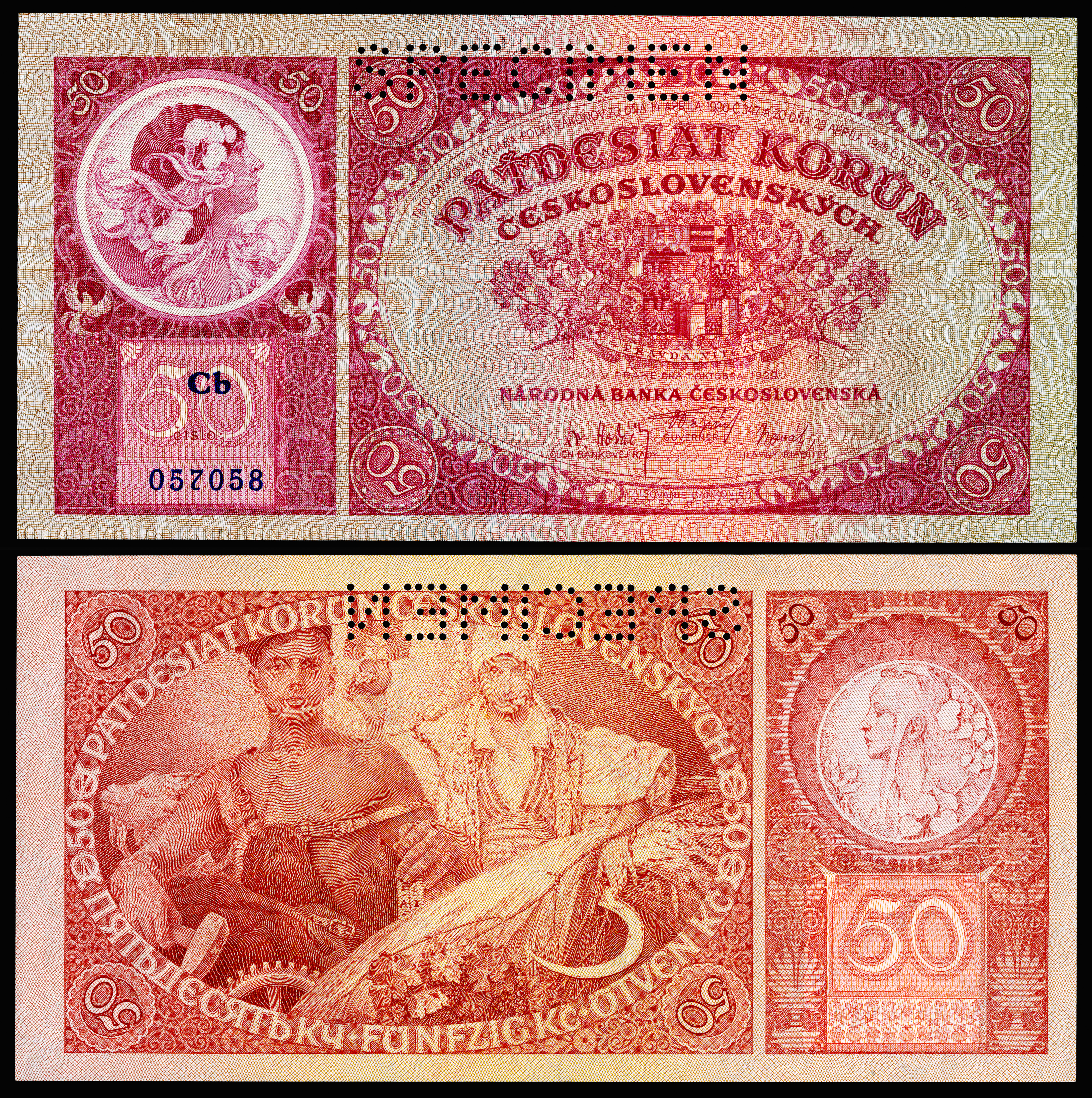 CZE-22-Czechoslovak National Bank-50 Korun (1929)